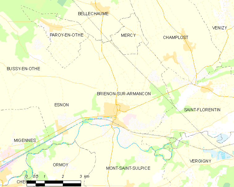 Map of French municipality Brienon-sur-Armançon